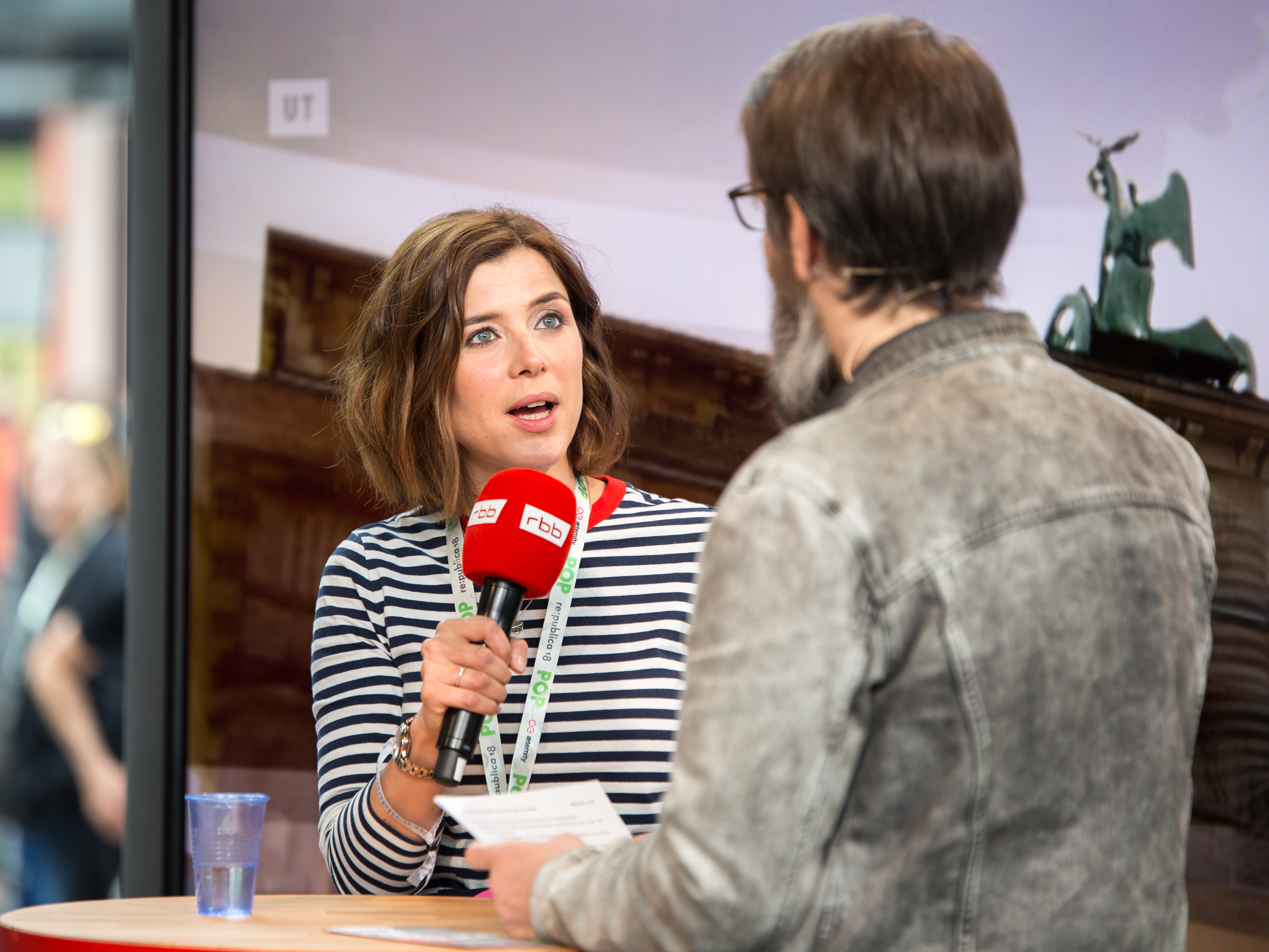 Eva-Maria Lemke at the :Re:publica 18